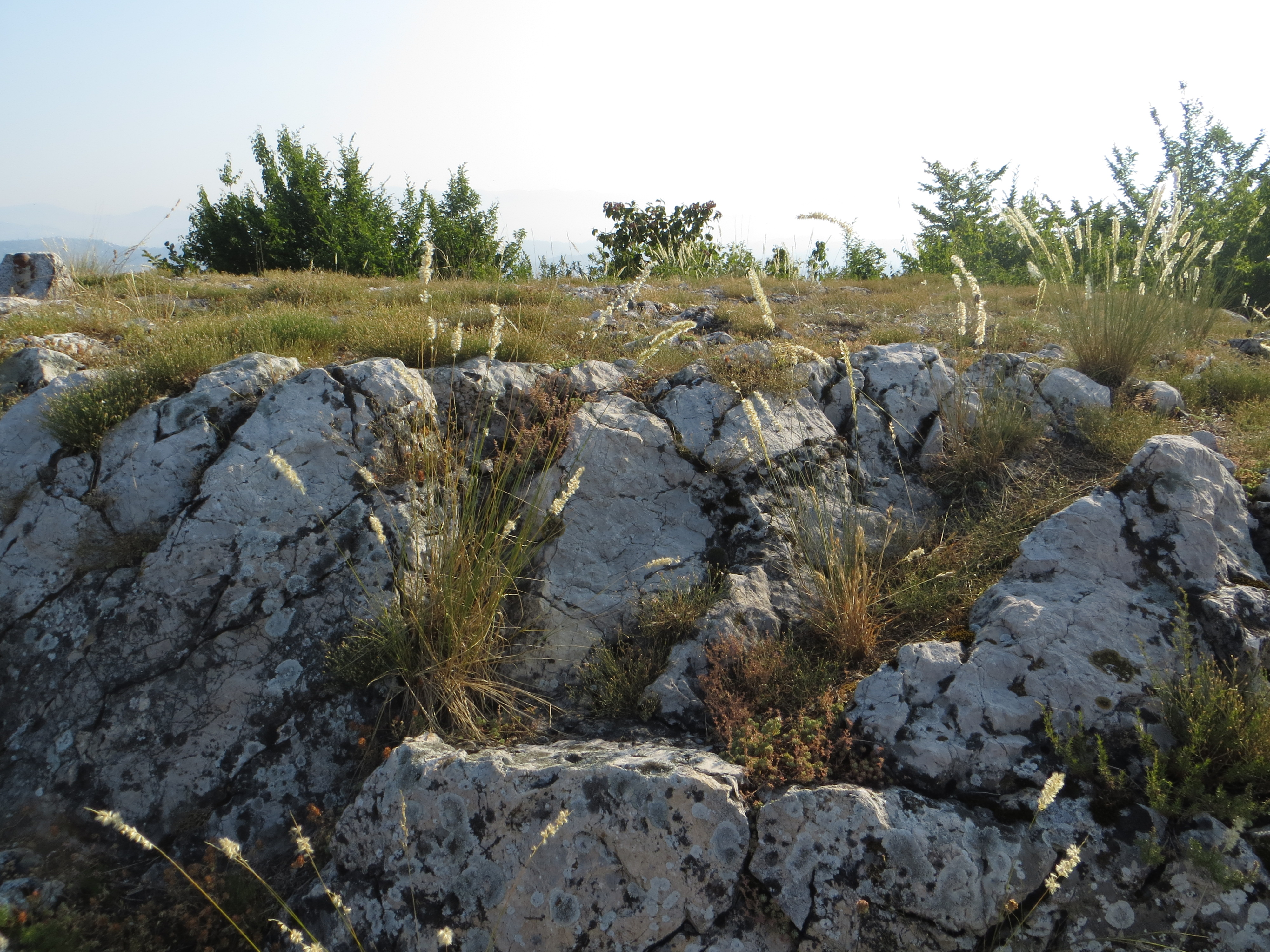 Cultural heritage is composed from remains of prehistoric fort, late antiquity fort wall pieces and church foundations from the same time period. This image was uploaded as part of Trace of Soul 2015.